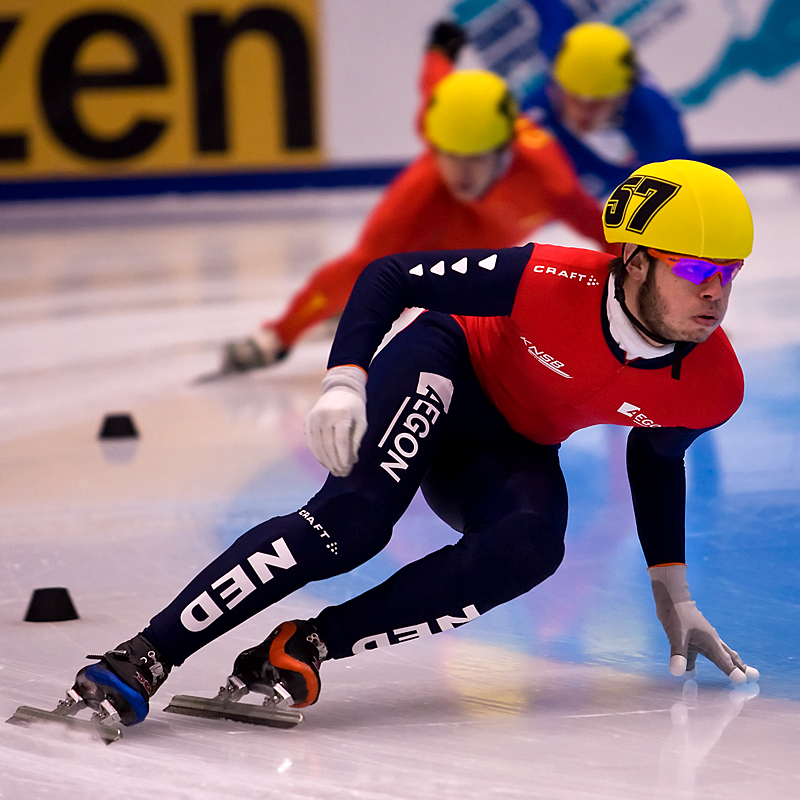 Sjinkie Knegt (Bantega, July 5,1989) is a Dutch short track speed skater.